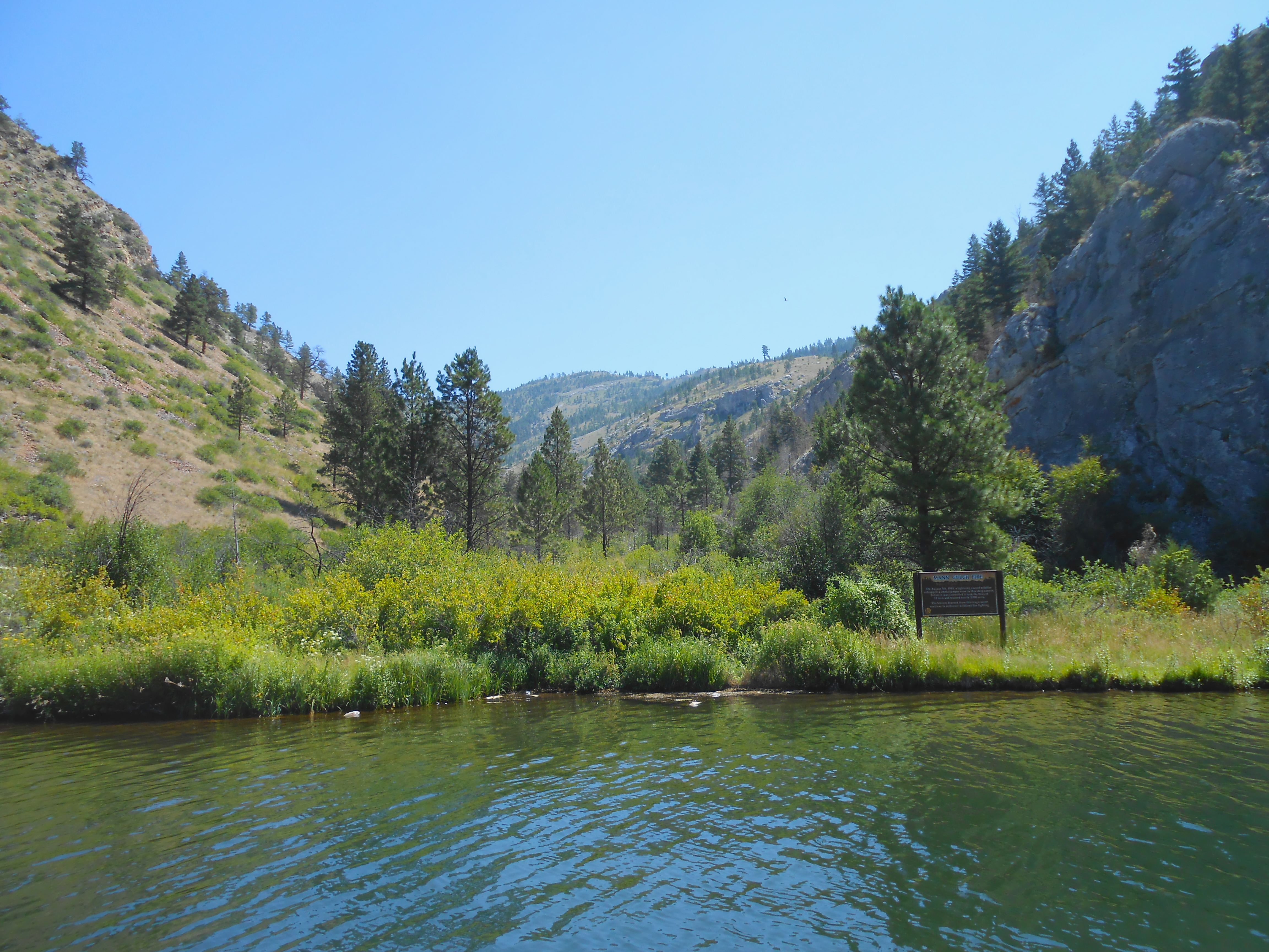 Mouth of Mann Gulch — on the Missouri River, in the Gates of the Mountains Wilderness Area of the Helena National Forest. Located in Lewis and Clark County, Montana.